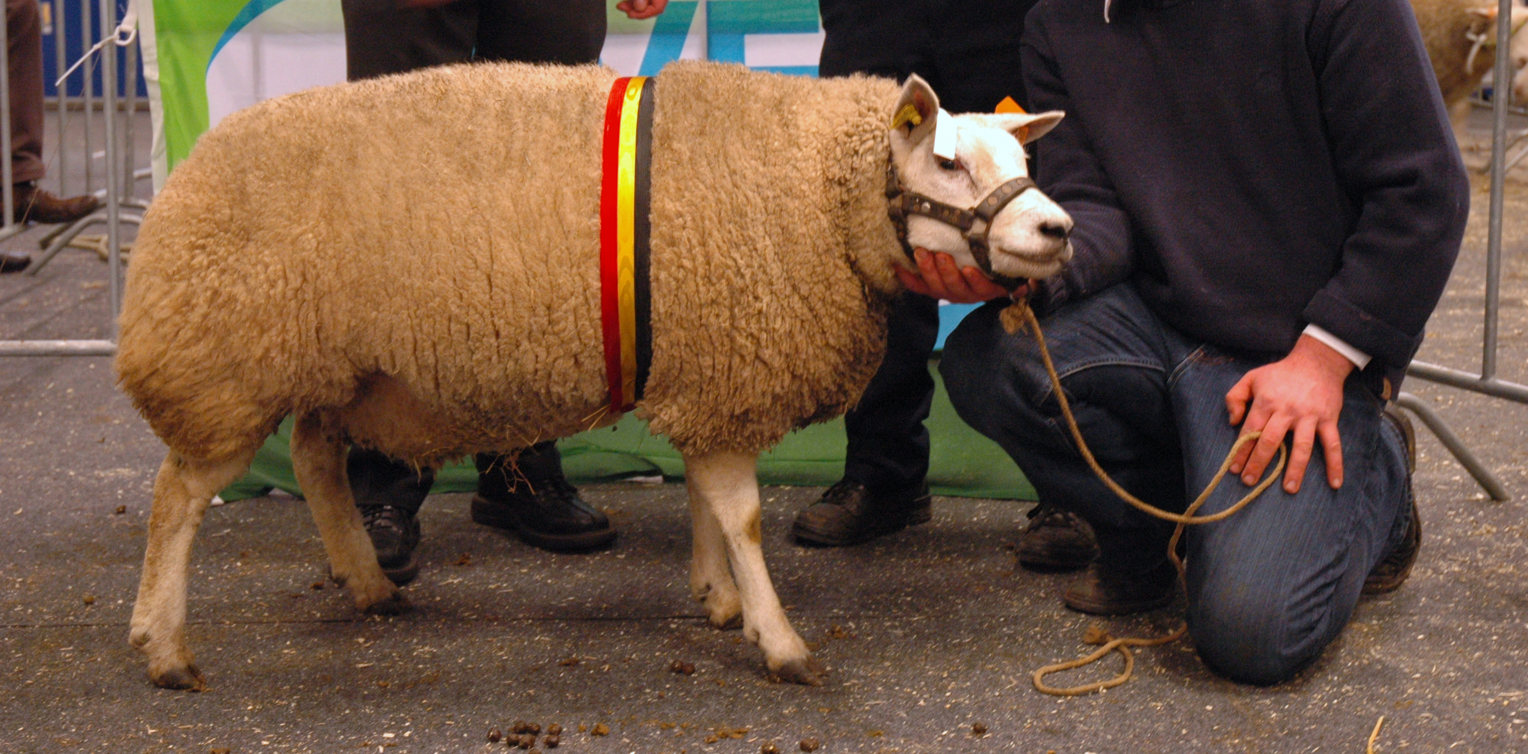 A texel sheep at a Flemish agricultural show